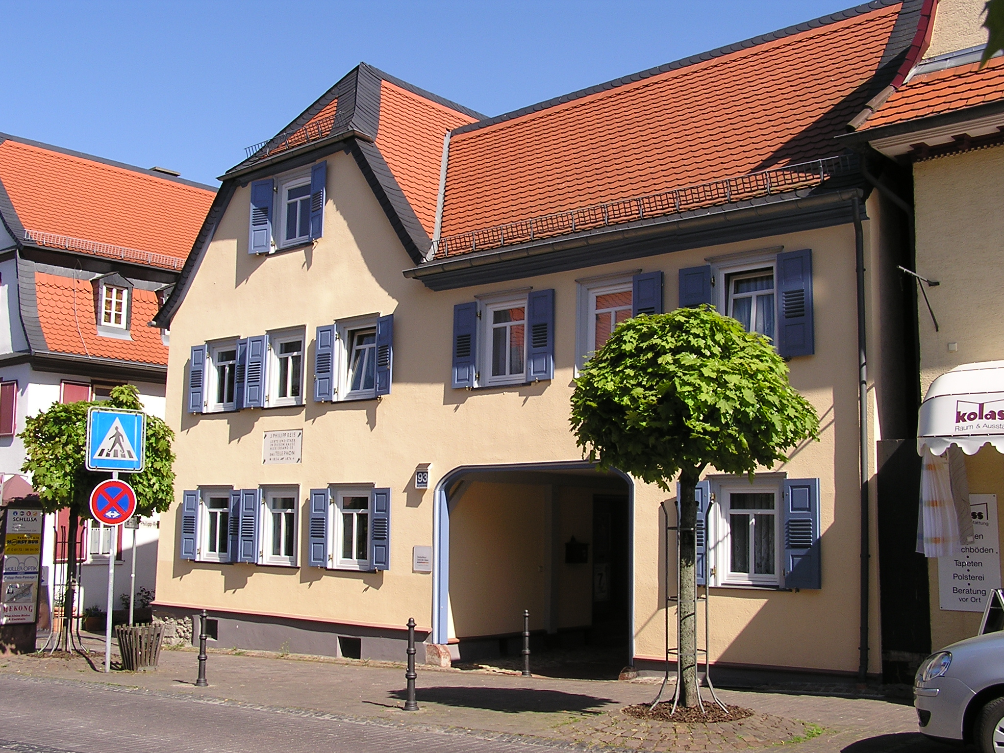 The Philipp-Reis-House in Friedrichsdorf. Here, the telephone was invented. Today the building is a museum.